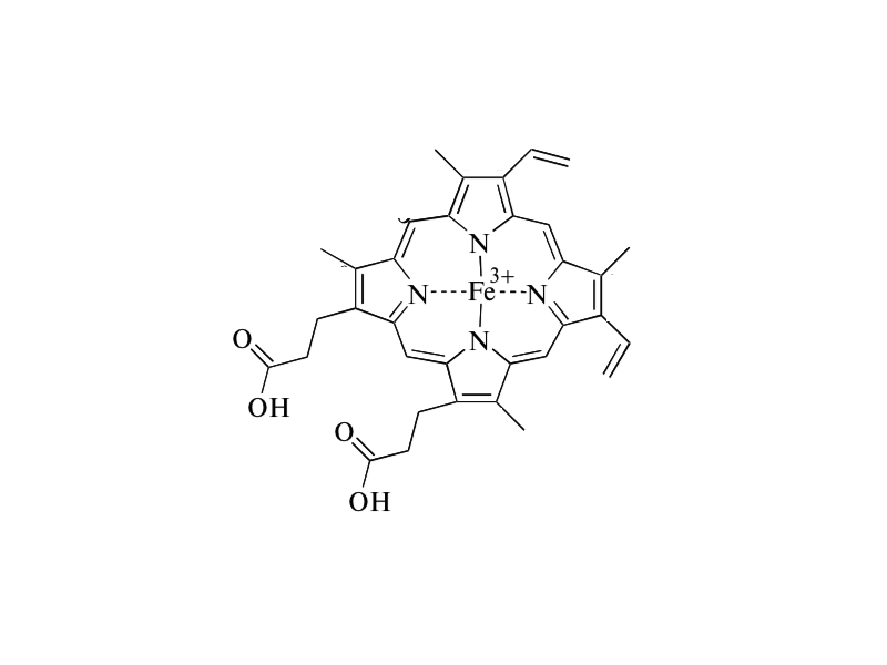 Tetrapyrrol ring inside of Ligninperoxidase (LiP).